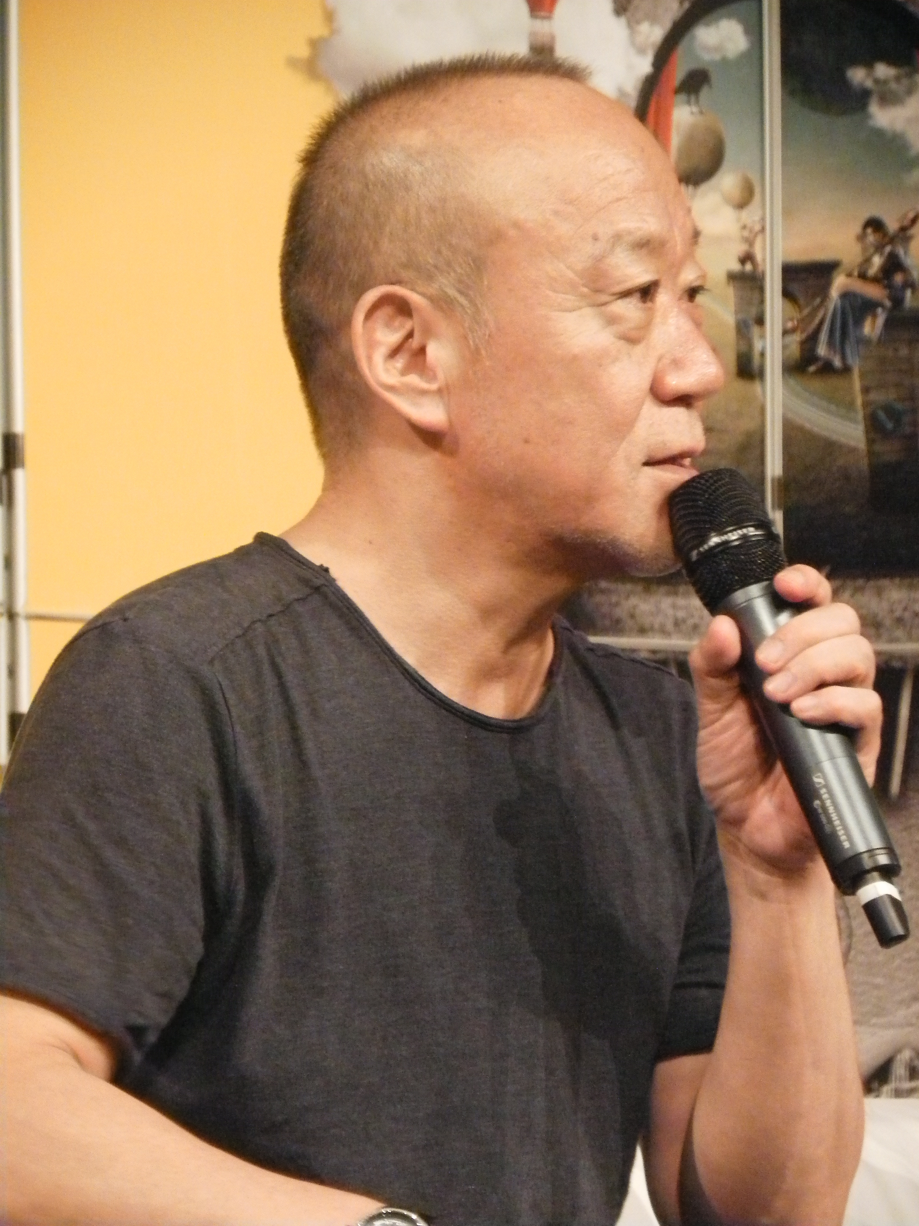 Joe Hisaishi in Krakow, 2011